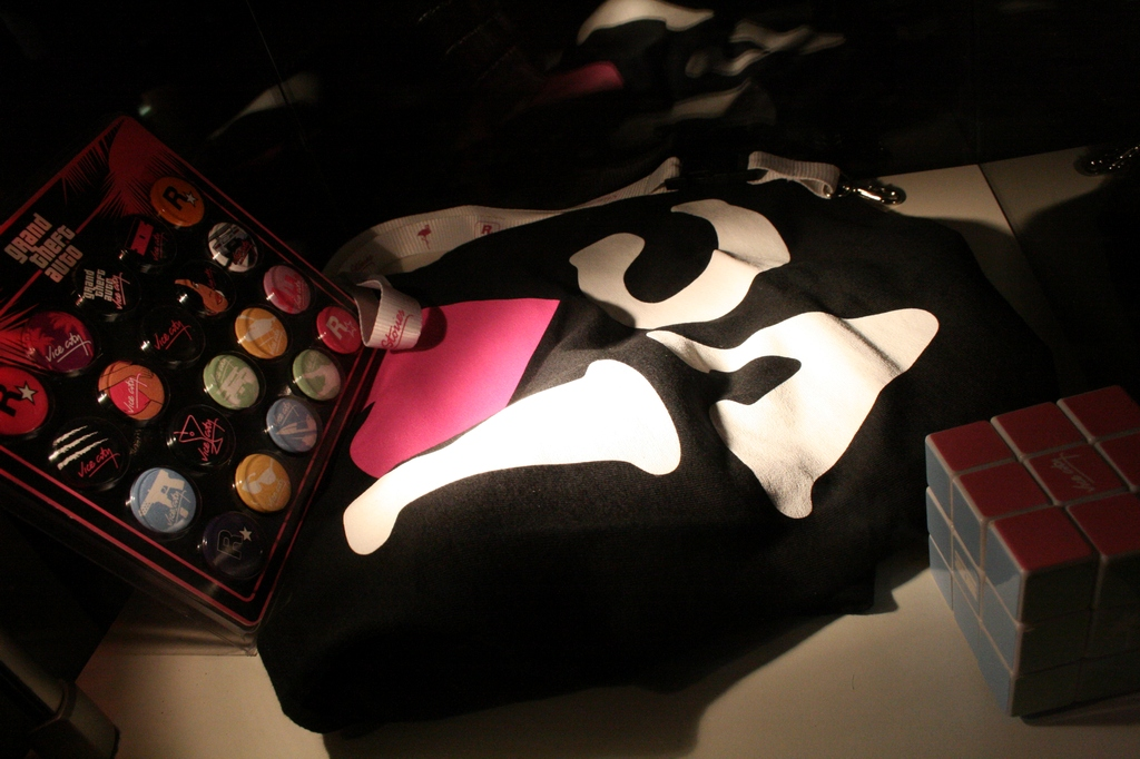 "Grand Theft Auto Vice City" Goodies